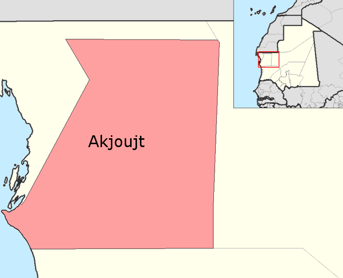 Using GIMP, I changed out the map labels on User:Rarelibra's original work Image:Inchiri_department.png for some bigger ones.